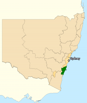 This image incorporates data that is: © Commonwealth of Australia (Australian Electoral Commission) 2009 Division of Gilmore 2010